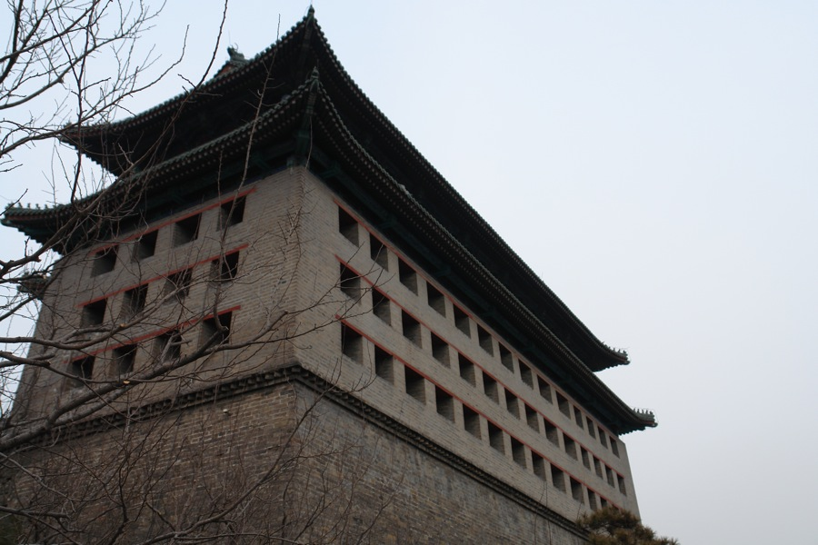 Ruins of the Beijing city wall built during the Ming Dynasty.